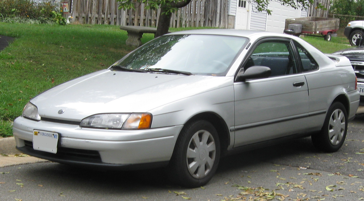 1991-1995 Toyota Paseo photographed in Fairfax, Virginia, USA.